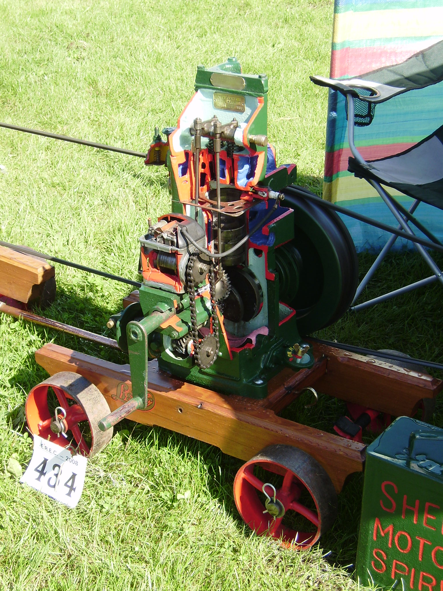 A Complete Lister engine that has been sectioned through to expose the workings